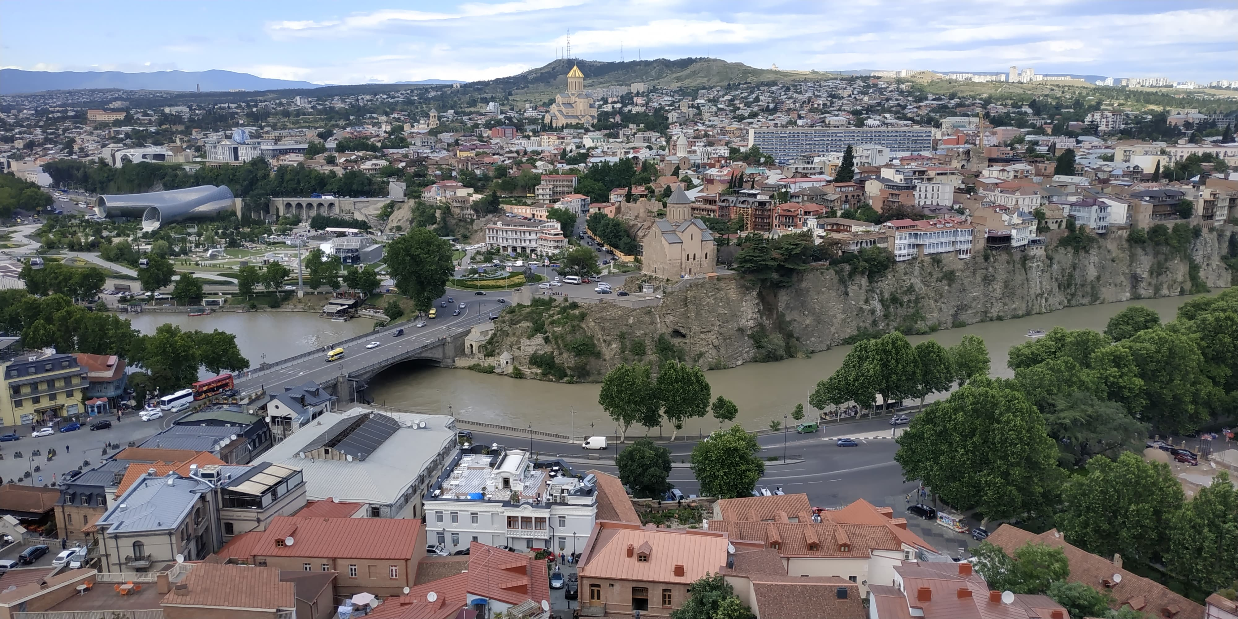 View of Old Tbilisi